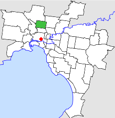 Location of the City of Coburg within Melbourne.